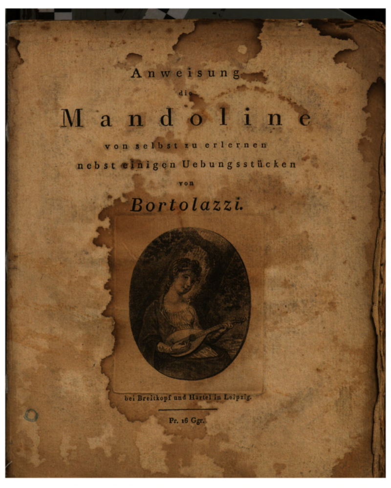 Front cover of the c.1805 book Anweisung die Mandoline von selbst zu erlernen (date not printed in book) by Barolomeo Bortolazzi, published by Breitkopf and Härtel in Leipzig.